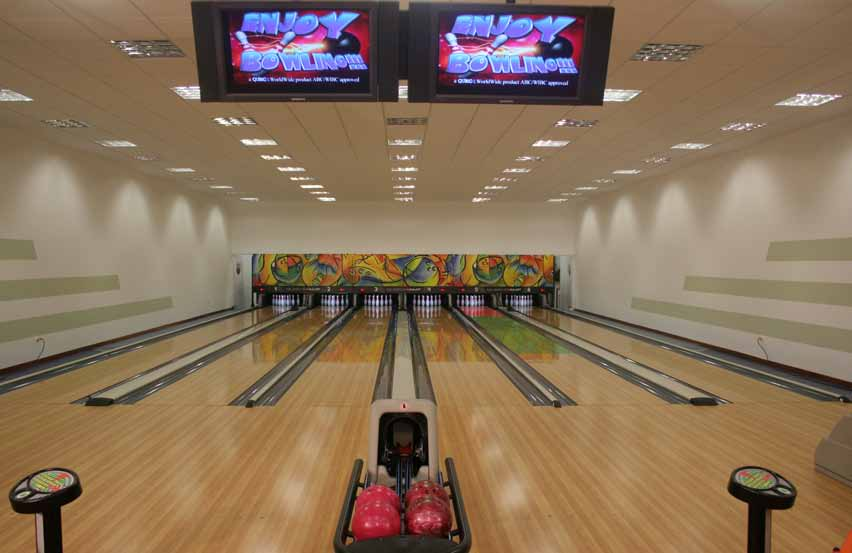 bowling